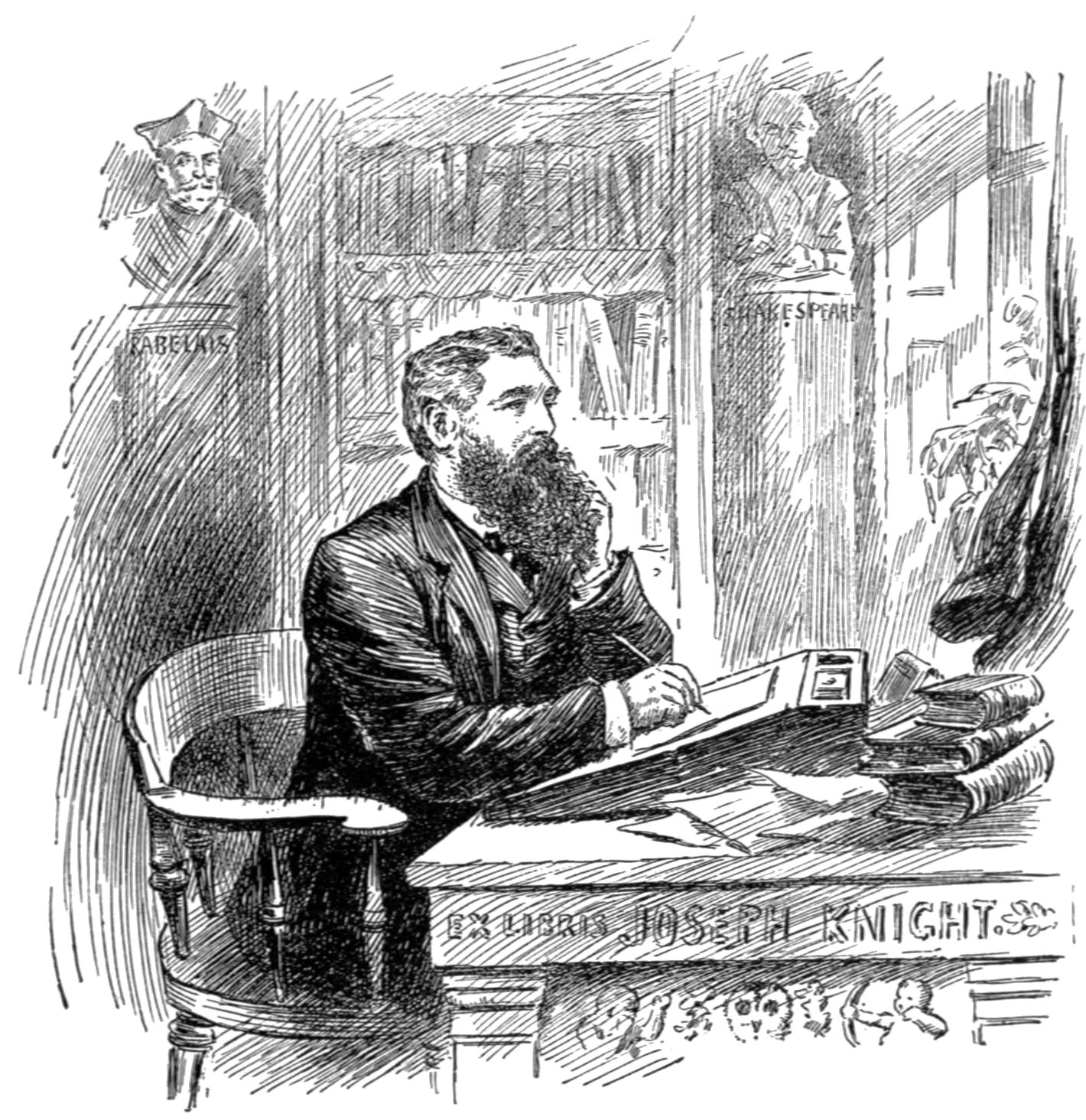 Joseph Knight's book-plate; /63. Notes by the Way with Memoirs of John Joseph Knight , F.S.A.: Dramatic Critic and Editor of 'Notes and Queries,' 1883–1907 and the Rev. Joseph Woodfall Ebsworth, F.S.A. Editor of the Ballad Society's Publications